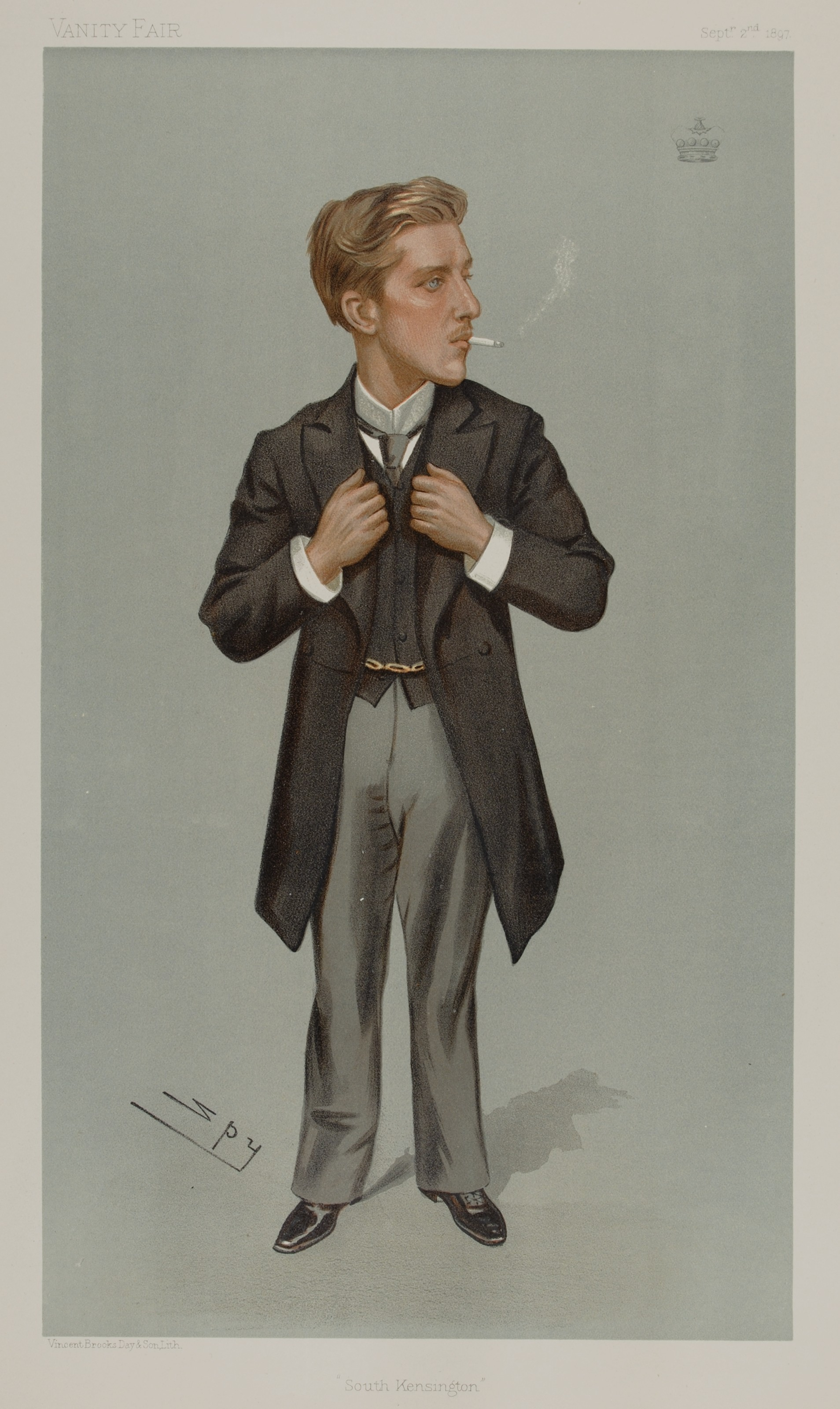 Statesmen No. 689: Caricature of Lord Warkworth, M.P.. Caption read "South Kensington".